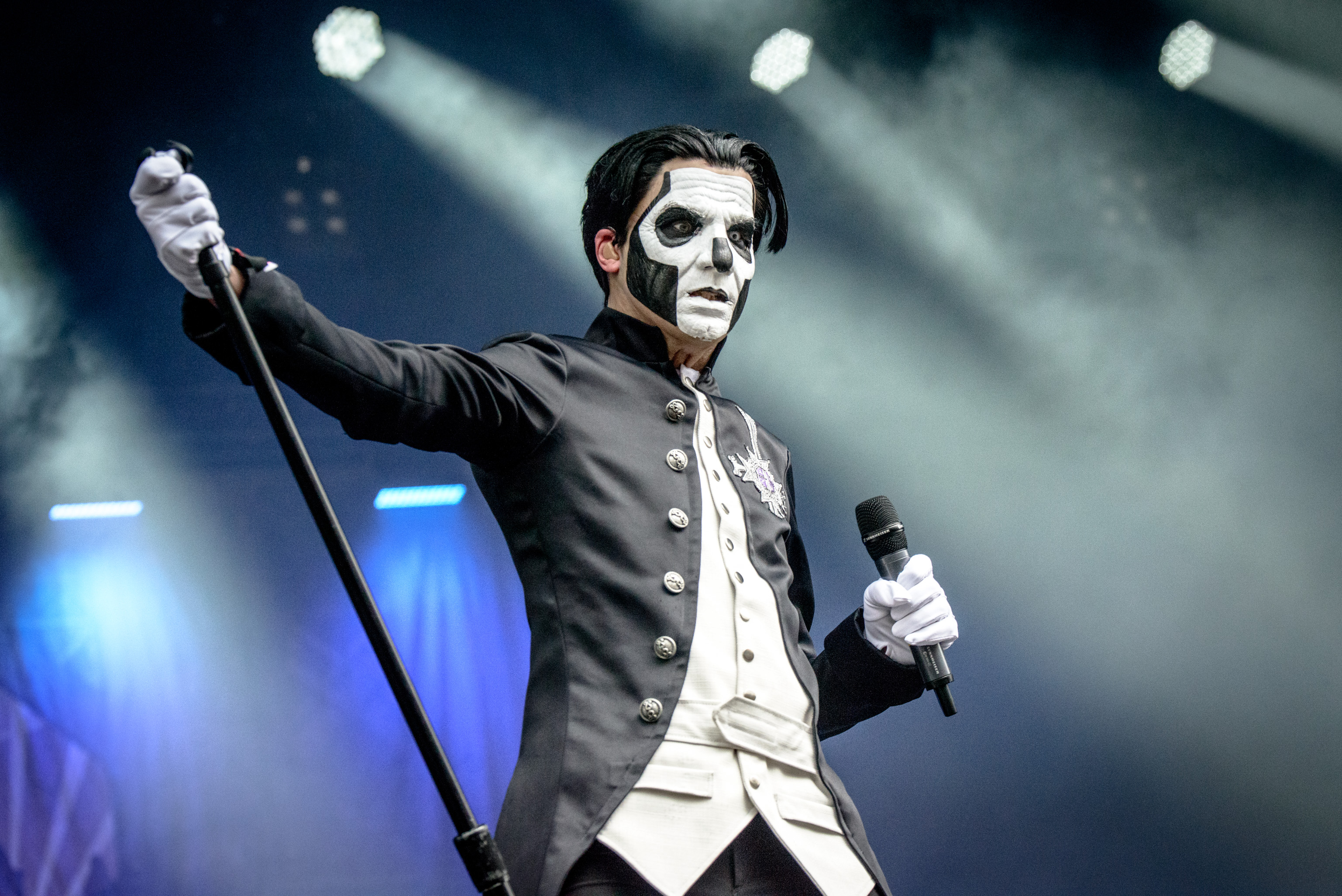 Ghost Live @ Rockavaria 2016